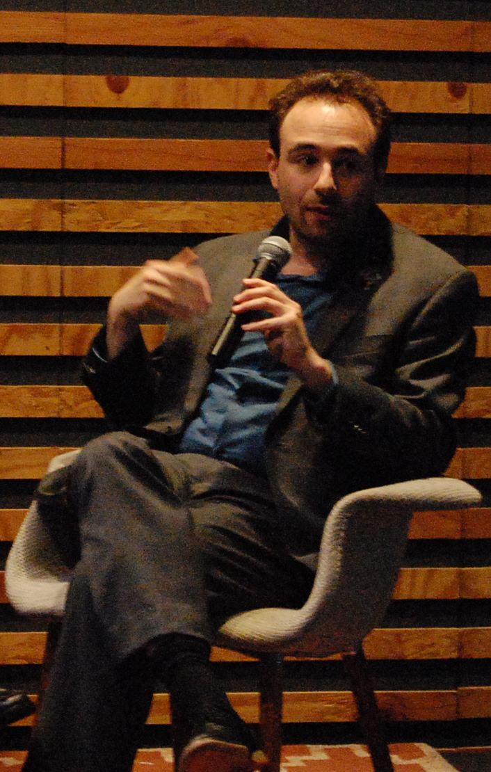 Robert Doar, Morgridge Fellow in Poverty Studies, American Enterprise Institute, Former Commissioner, Human Resources Administration, City of New York; Yascha Mounk, Senior Fellow, Political Reform Program, New America, Author, The Age of Responsibility: Luck, Choice, and the Welfare State